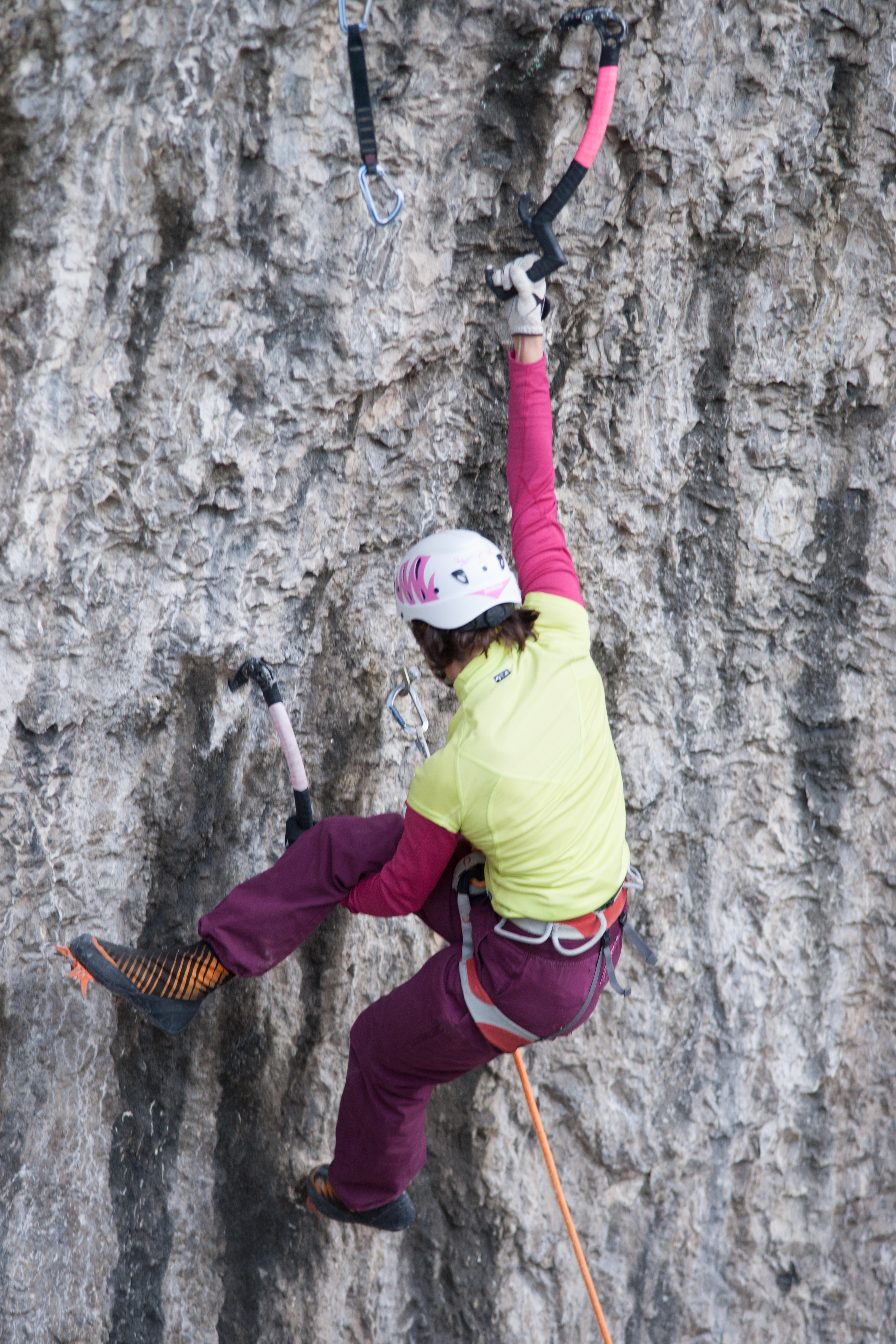 Stéphanie Maureau doing a yaniro during the DTS Tour 2014 Final, 29th November 2014